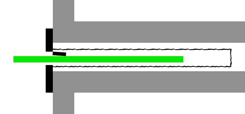 Diagram of the "Lebanese loop" ATM theft device.